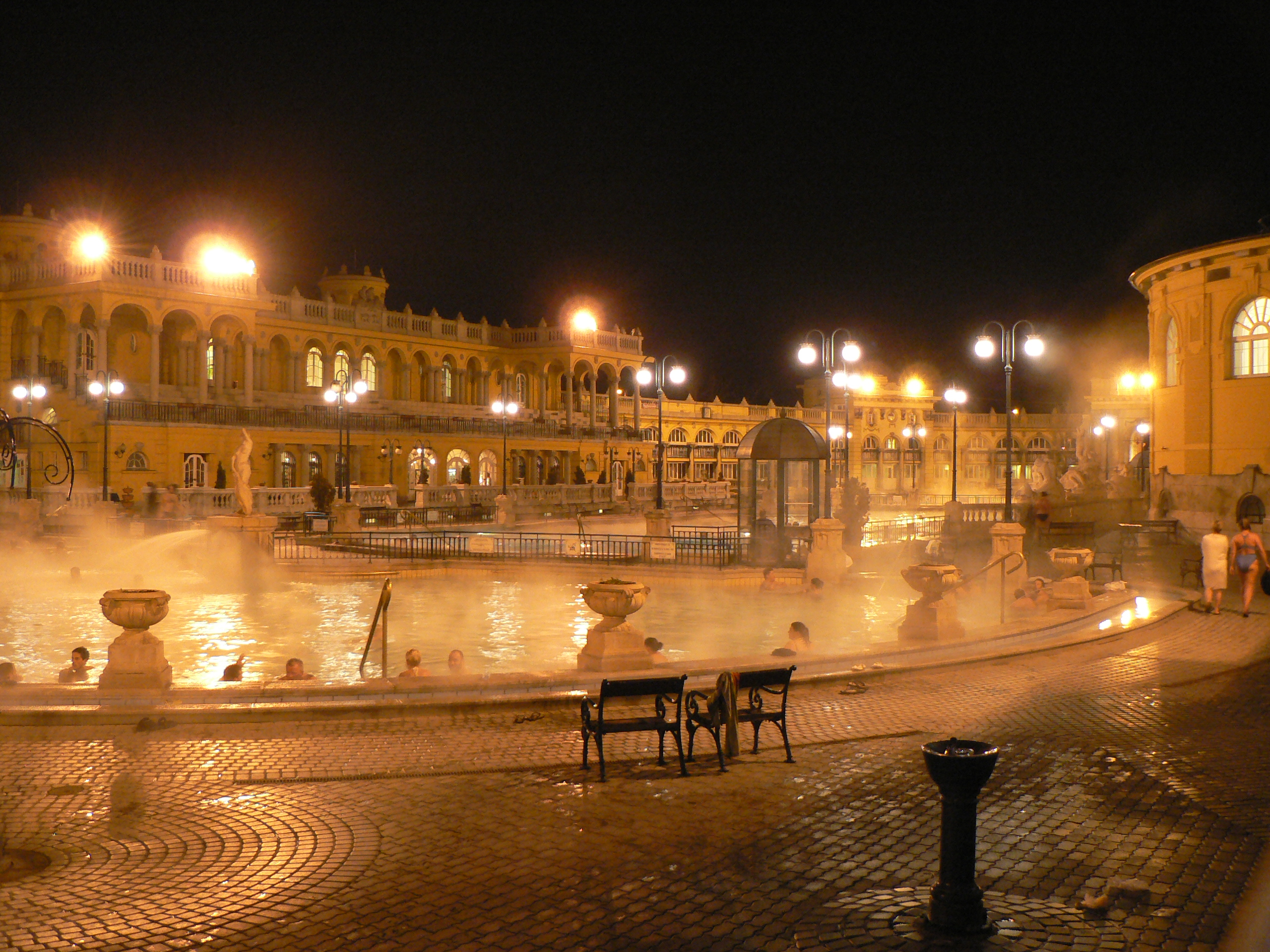 Night view of the Széchenyi baths in Budapest